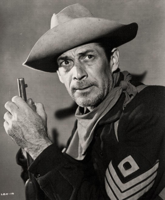 Reed Hadley in Little Big Horn - publicity still (cropped)